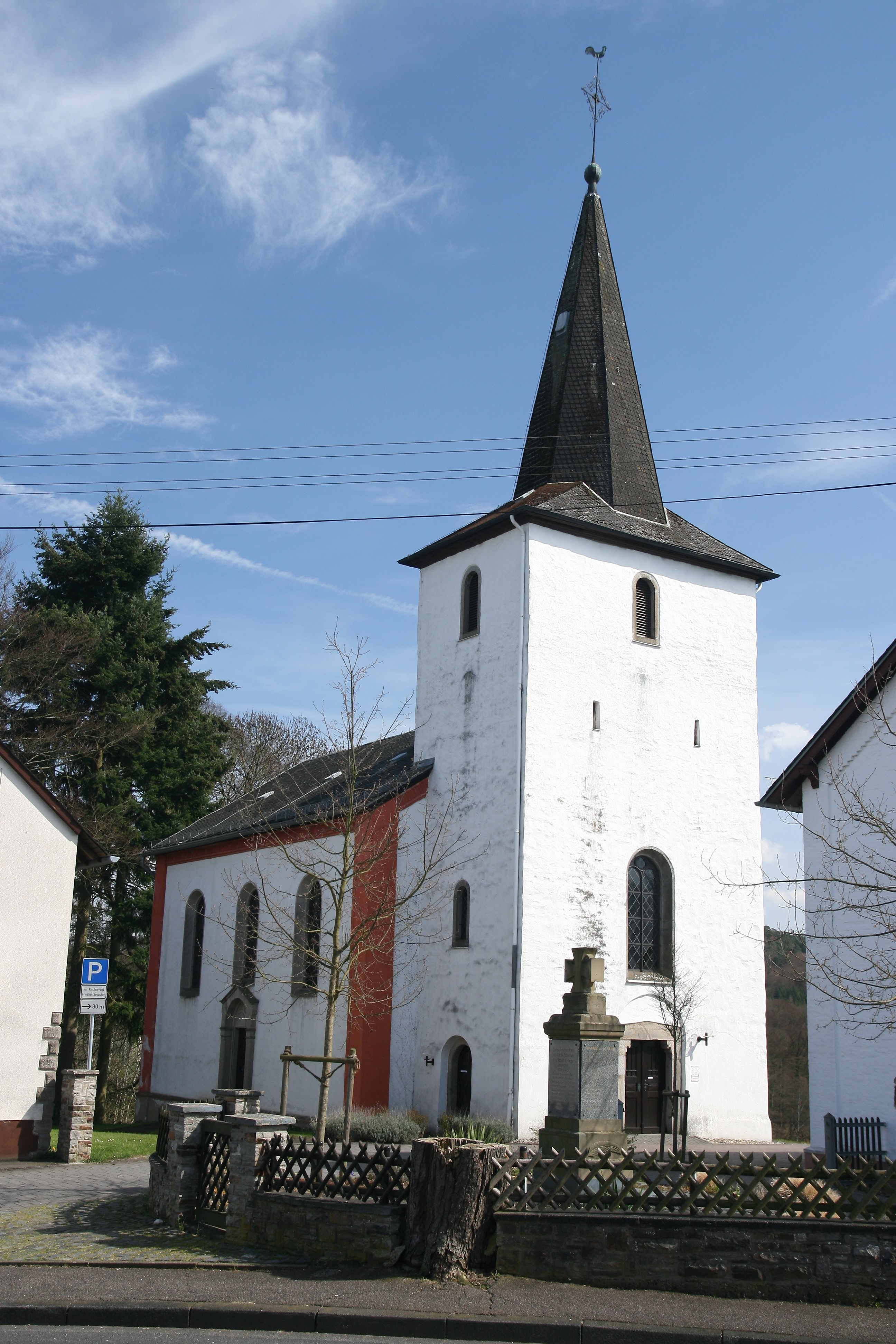 Protestant church, tower heightened in 1750, nave from 1853/54, cultural heritage. In the front: war memorial. Location: Hauptstraße/Schulstraße junction, Alsbach, Westerwald, Germany